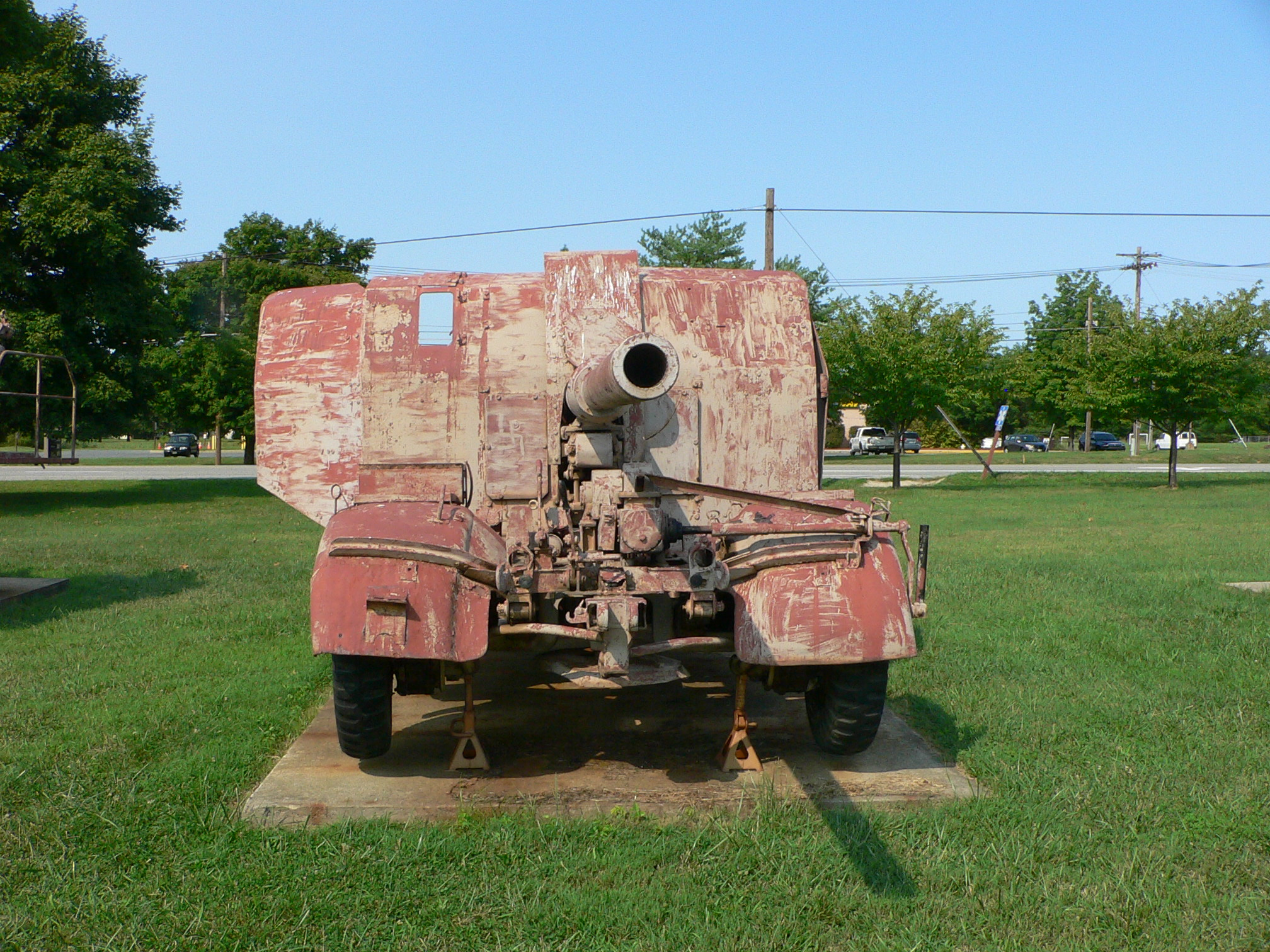 Picture taken by myself, Mark Pellegrini, at the United States Army Ordnance Museum (Aberdeen Proving Ground, MD) on August 14, 2007.